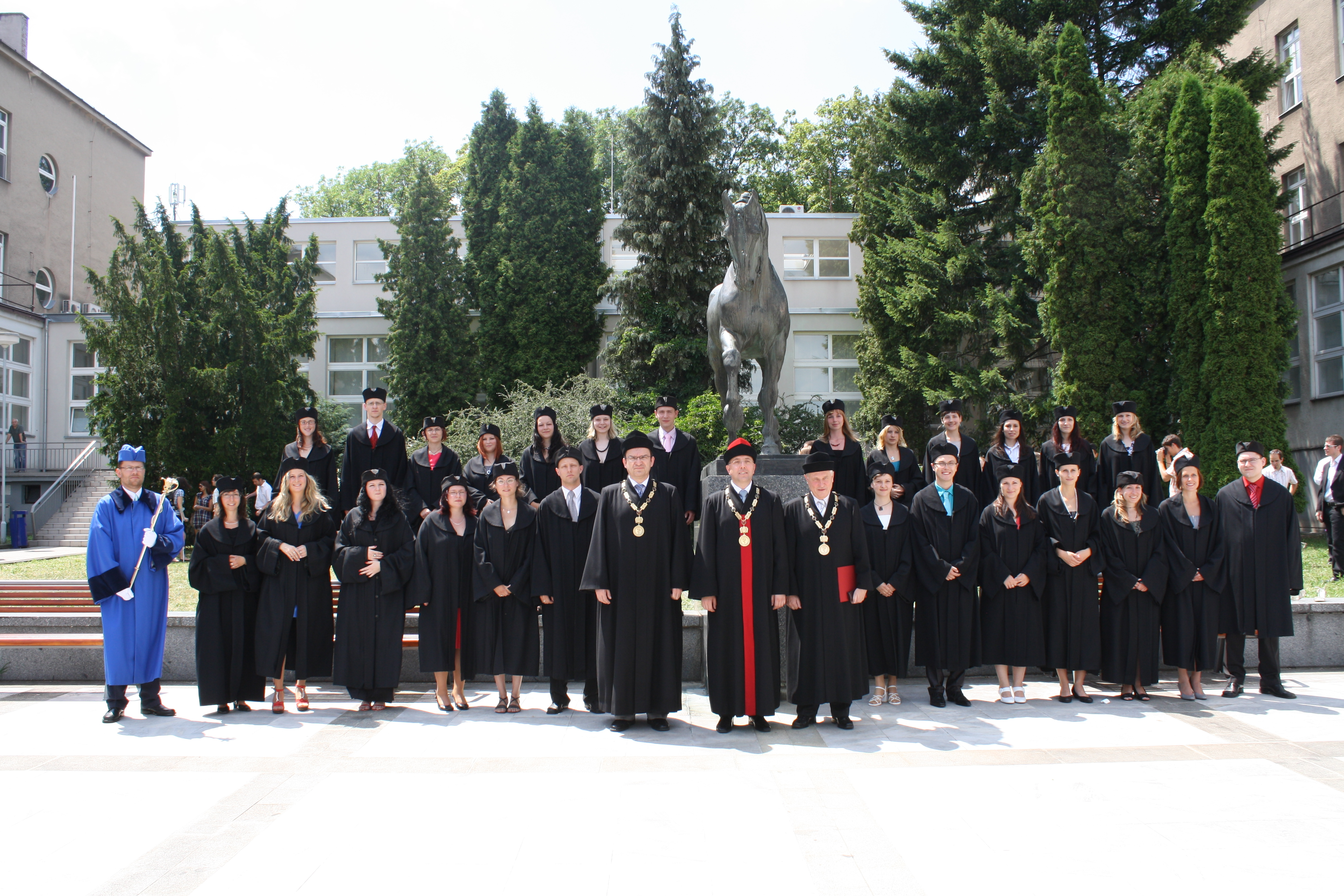 Promoce